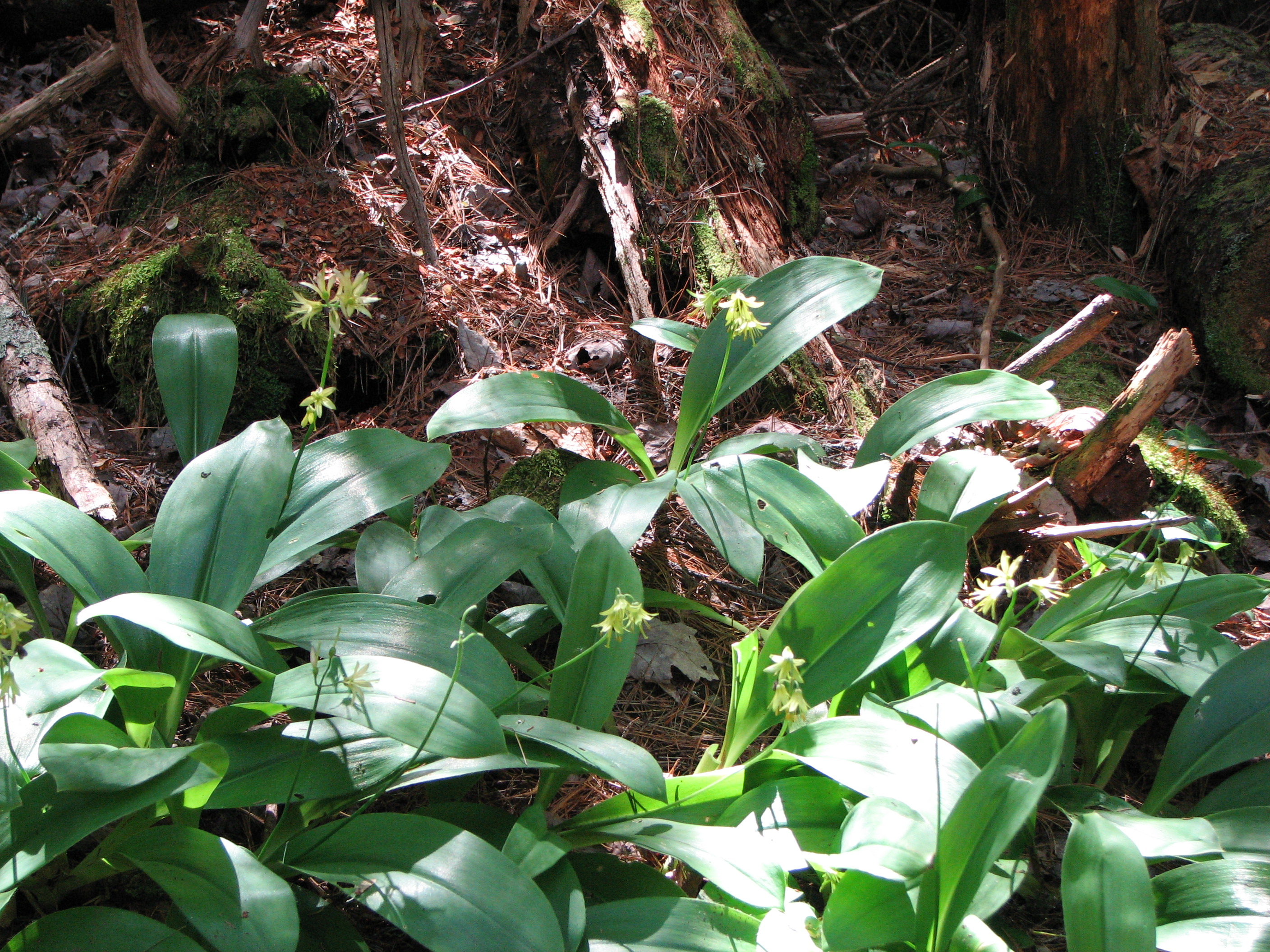 Clintonia borealis photographed at Moose Point State Park, Maine